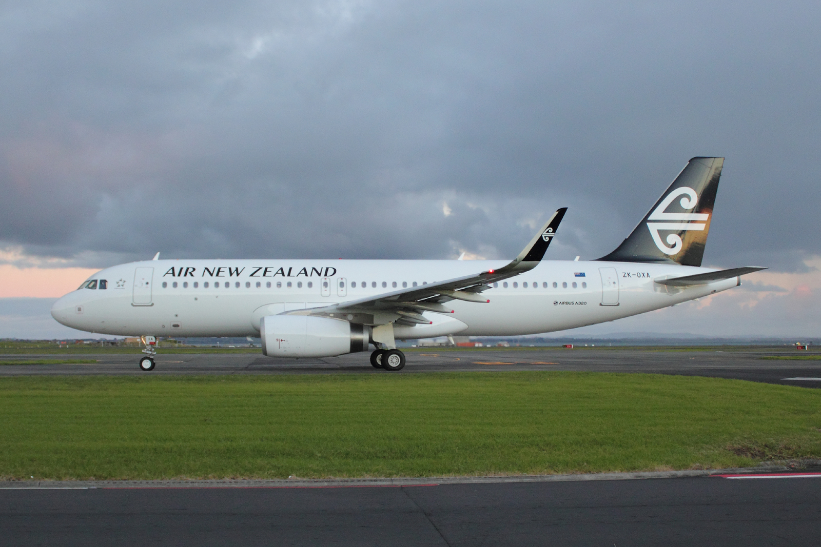 ZK-OXA Airbus A320-232 (5629), Air New Zealand, 30 June 2013 - Auckland